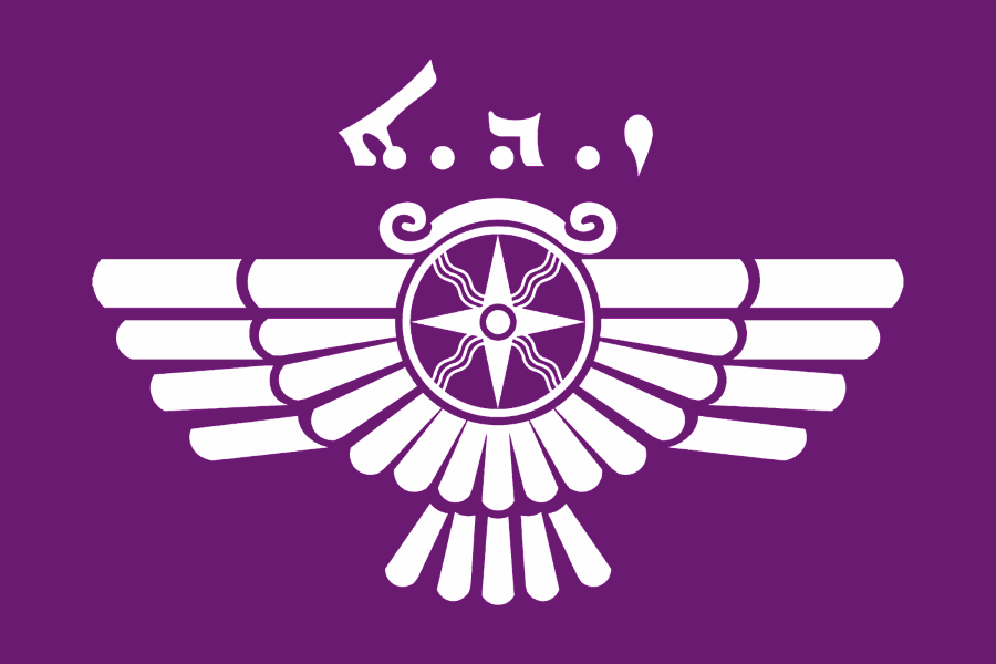 the Flag of the Assyrian Democratic Movement